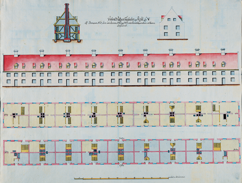 Drawing from the garrison of Kastellet in Copenhagen (Svanestok row)